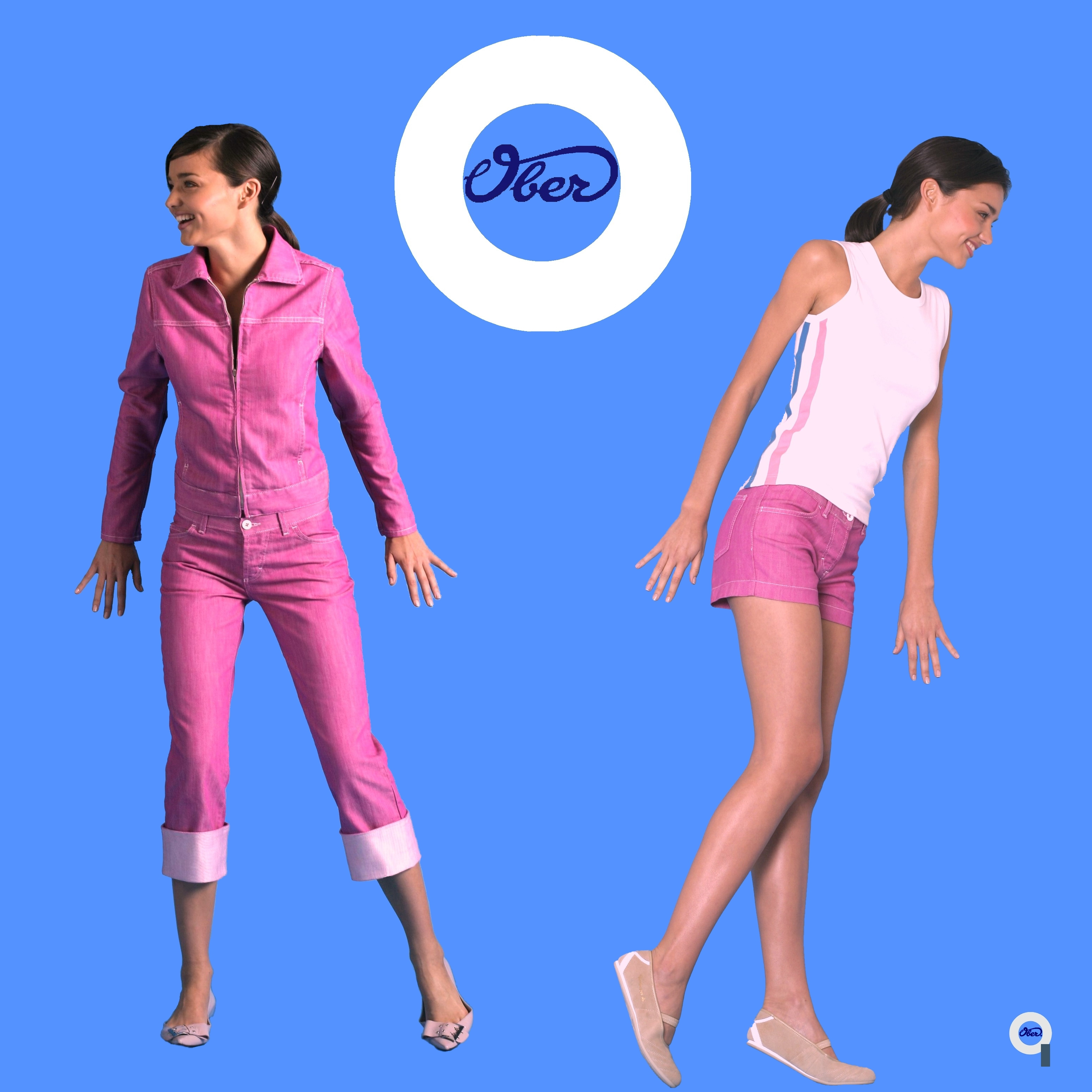 The first advertisign campaign featuring Miranda Kerr in 2004 for Ober Jeans by fashion photographer Erick Seban-Meyer.